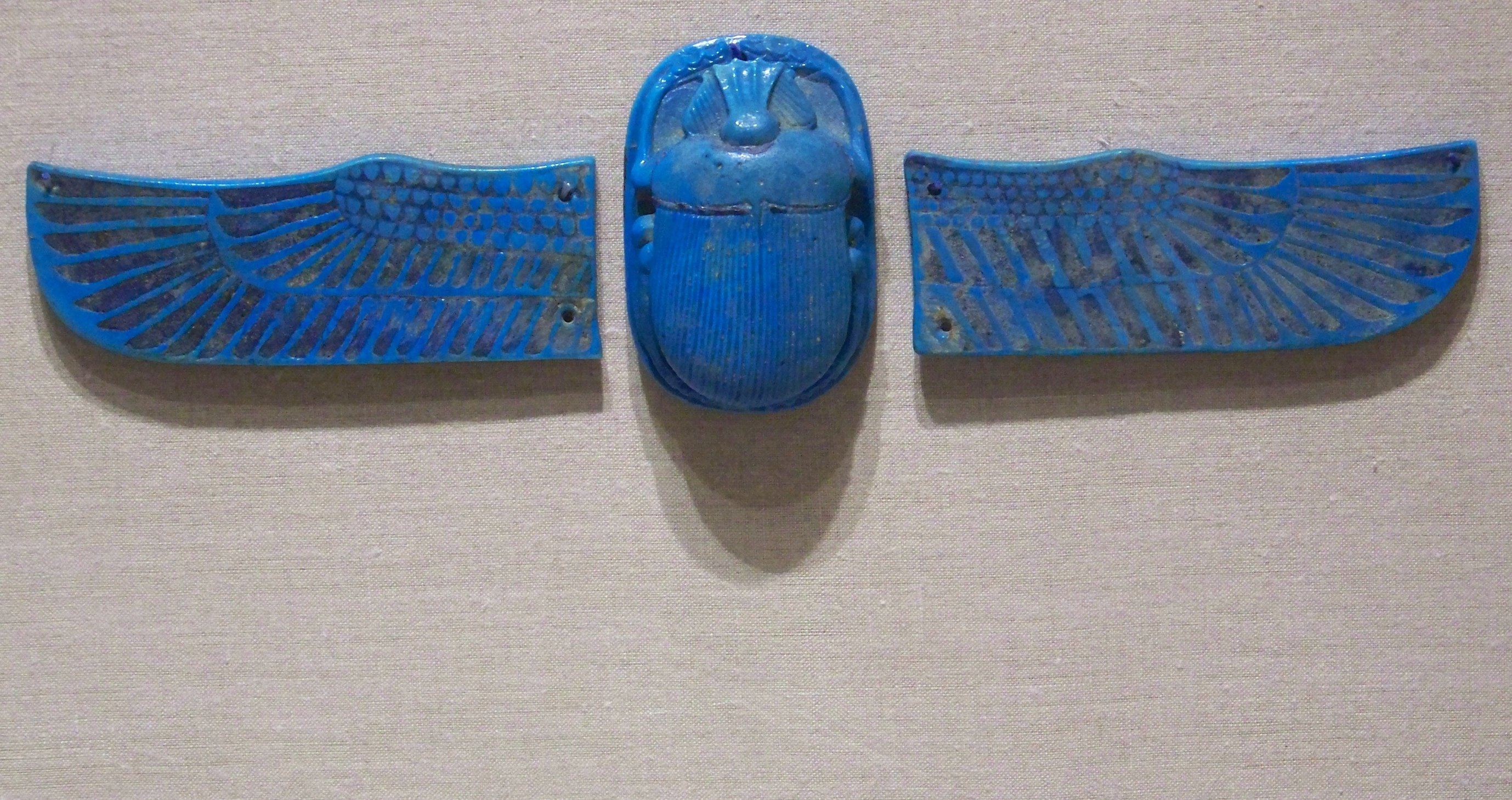 Scarab with Separate Wings, ca. 712-342 B.C.E. Faience, glazed, Scarab: 11/16 x 1 5/8 x 2 1/2 in. (1.8 x 4.2 x 6.3 cm) Wing: 1 5/16 x 3 3/4 in. (3.4 x 9.6 cm). Brooklyn Museum, Charles Edwin Wilbour Fund, 49.28a-c.